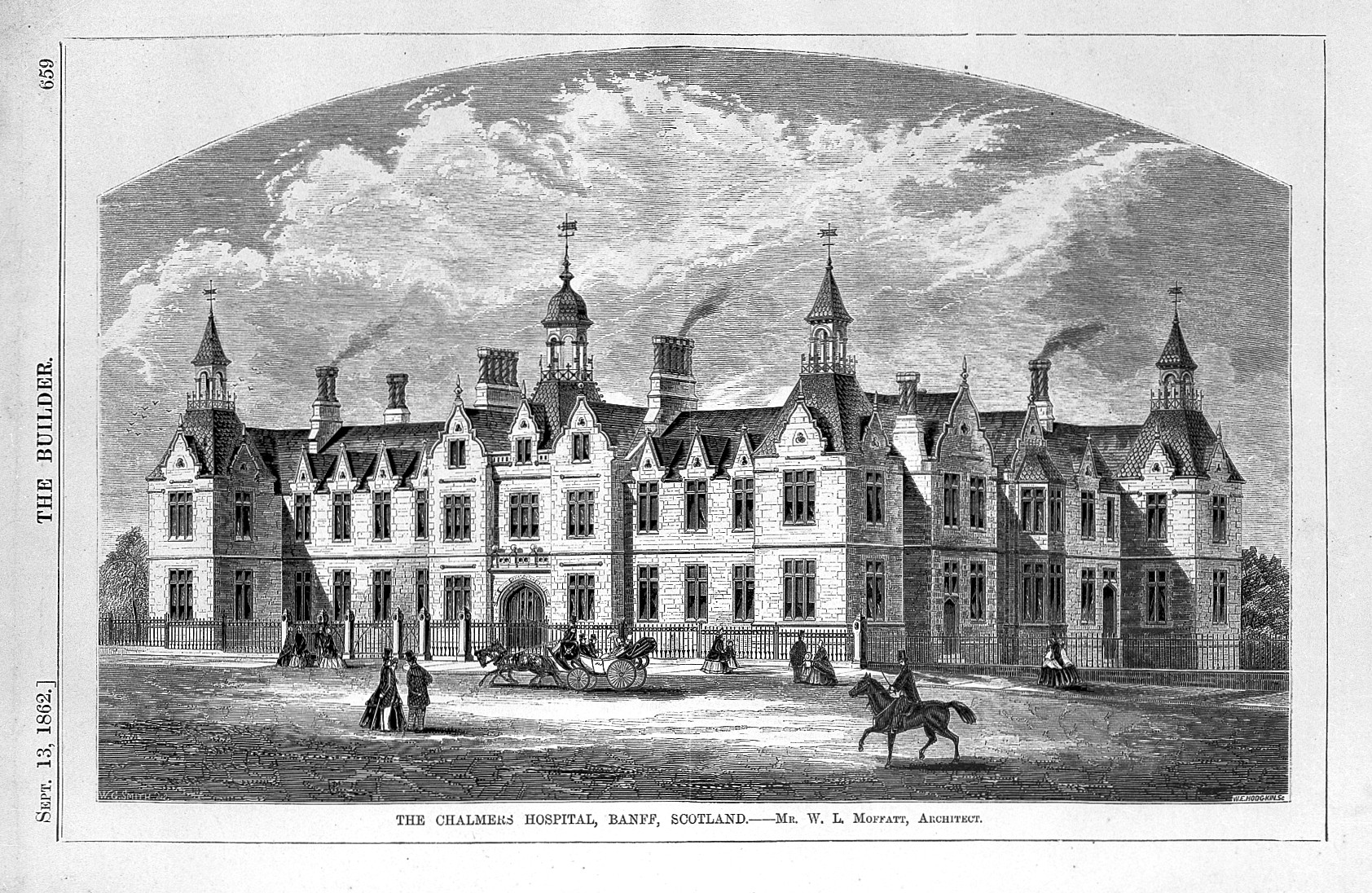 Chalmers hospital, Banff, Scotland. Wood engraving by W.E. Hodgkin, 1862 after W.G. Smith after W.L. Moffatt. Wellcome Images Keywords: Chalmers Hospital (Banffshire, Scotland); Worthington George Smith; W. E. Hodgkin; William Lambie Moffat